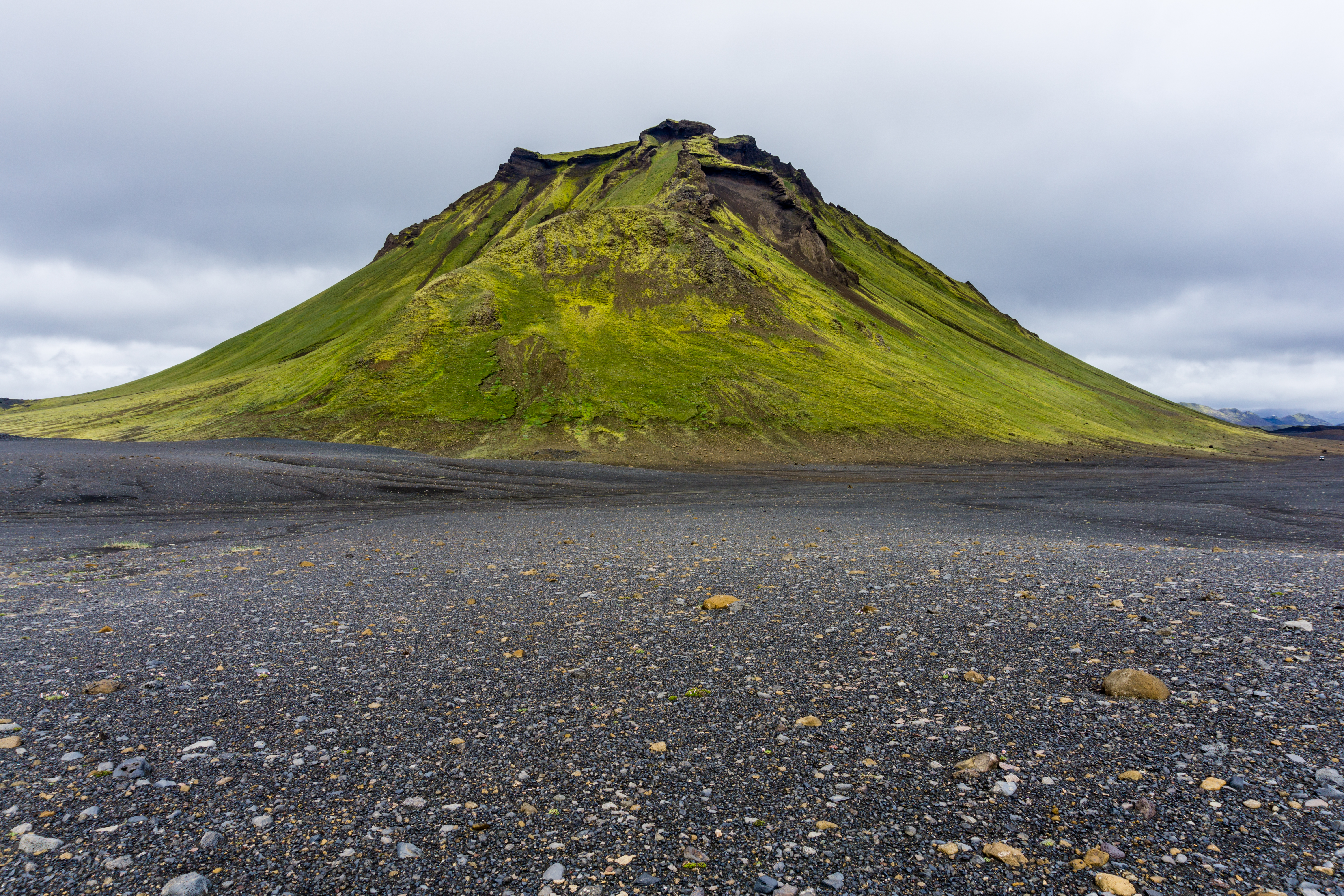 Hattfell from Laugavegur hiking trail, Iceland